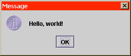 "Hello, world" Java/Swing program output.